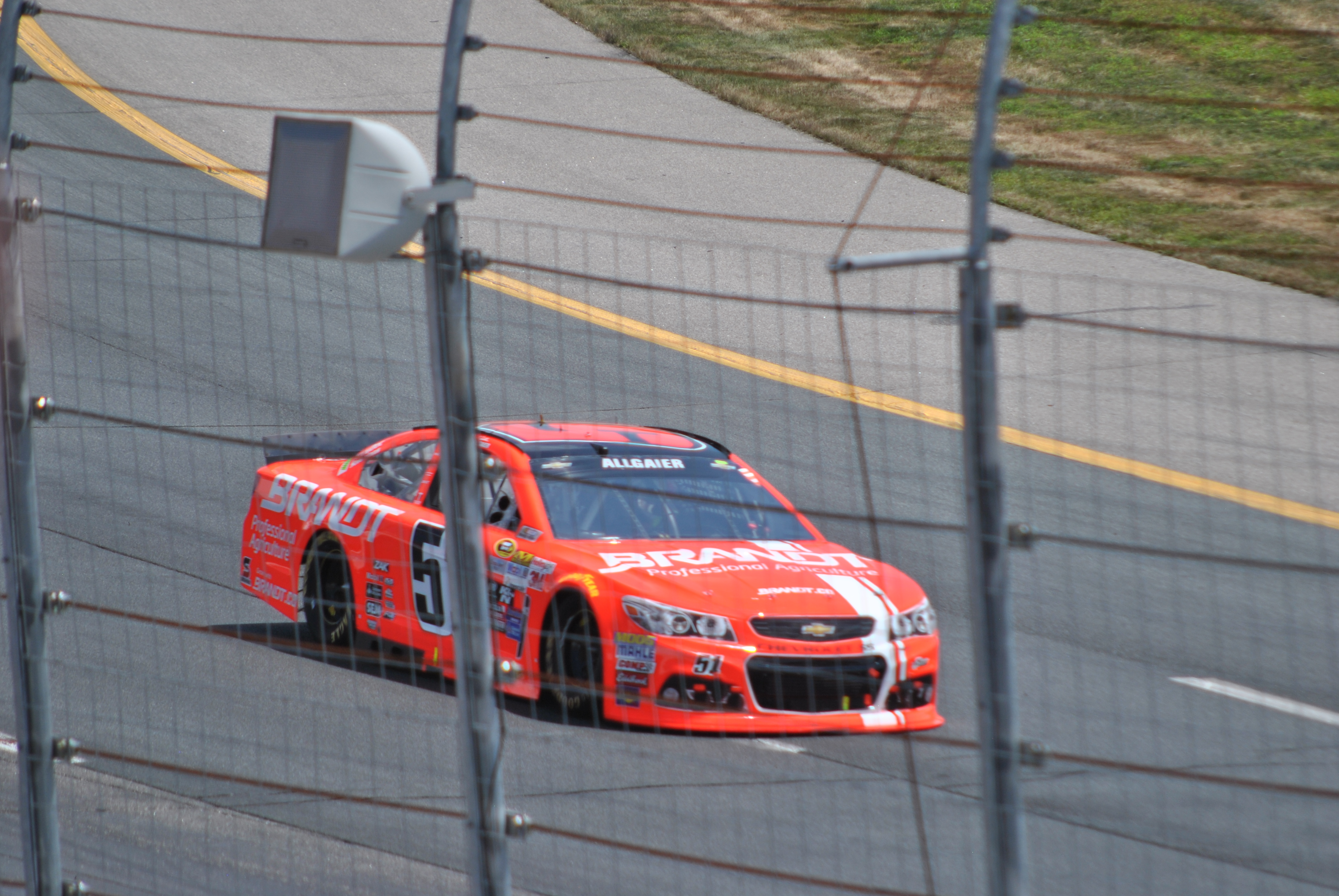 Justin Allgaier in the Brandt #51 Chevrolet SS